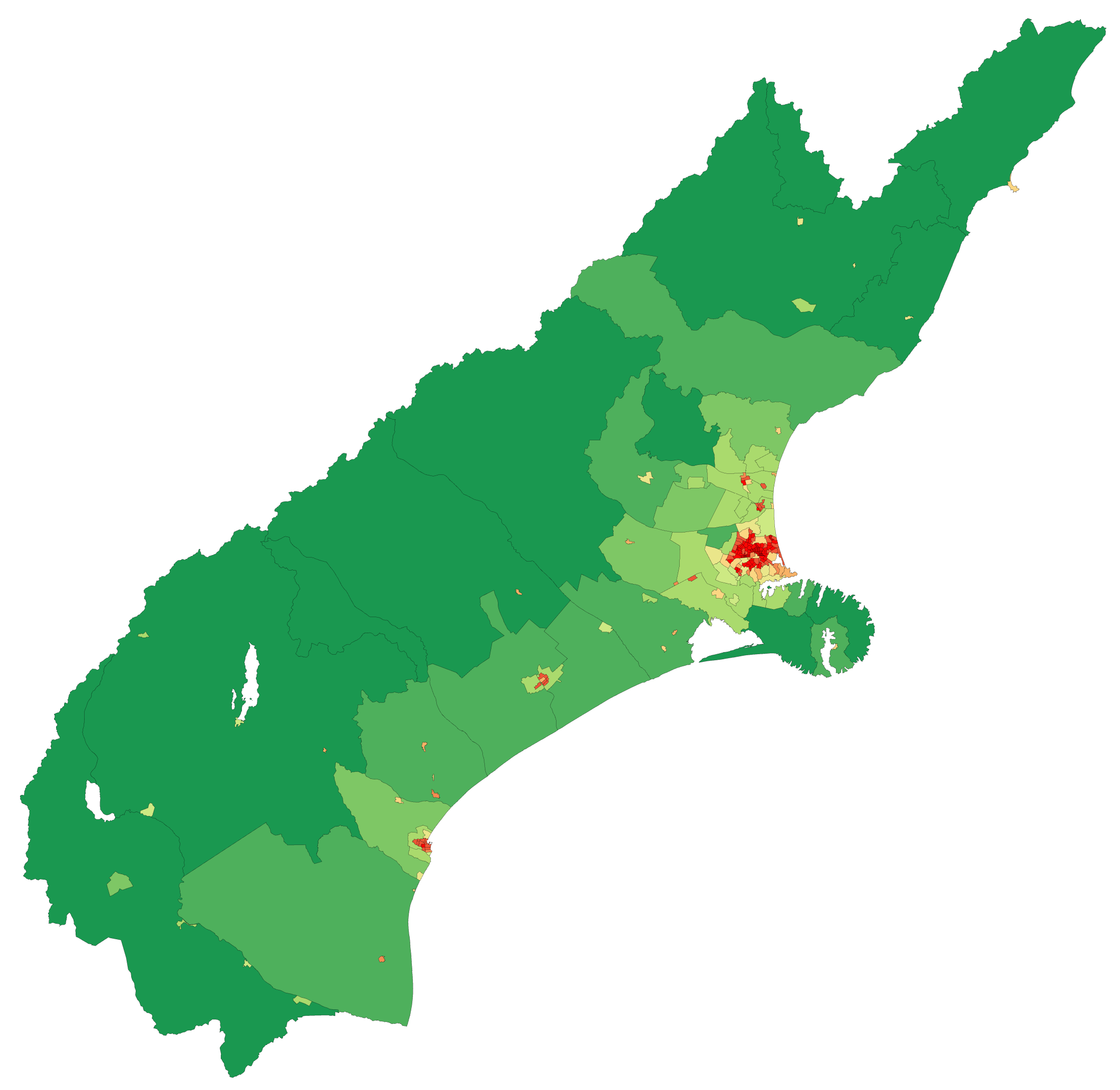 Map showing population density of a region of New Zealand (by Statistics NZ Area Unit) as of the 2006 census